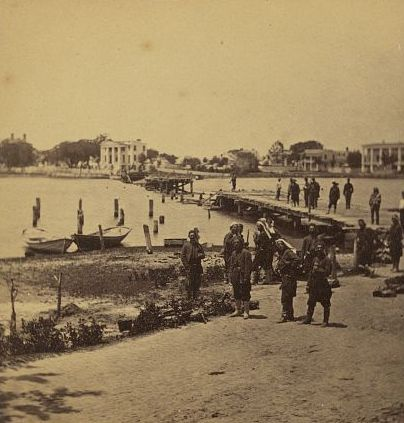 Bridge at Hampton, Va., burned by the rebels on the arrival of Col. Duryea's 5th Regiment Zouaves at Camp Butler, near Fortress Monroe, Va.